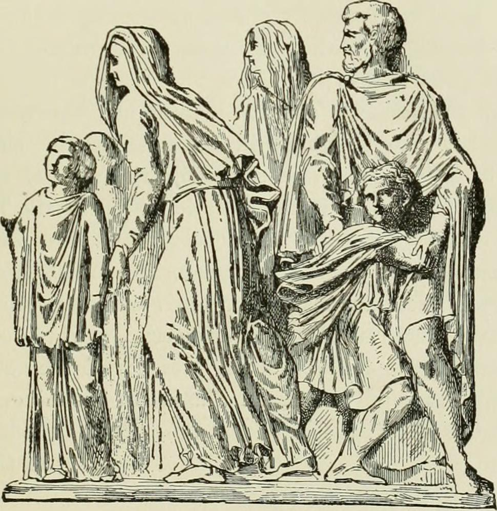 German family